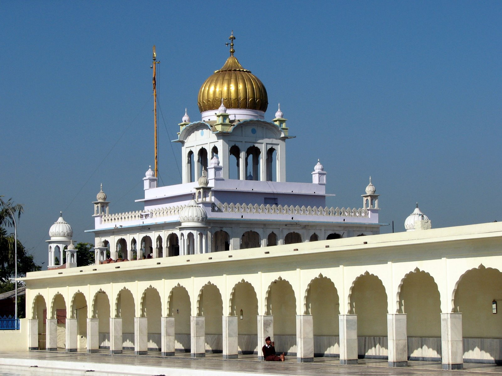 a young boy takes a break after school near the Sarovar (sacred pool) at Fatehgarh Sahib Gurdwara, Punjab, India.